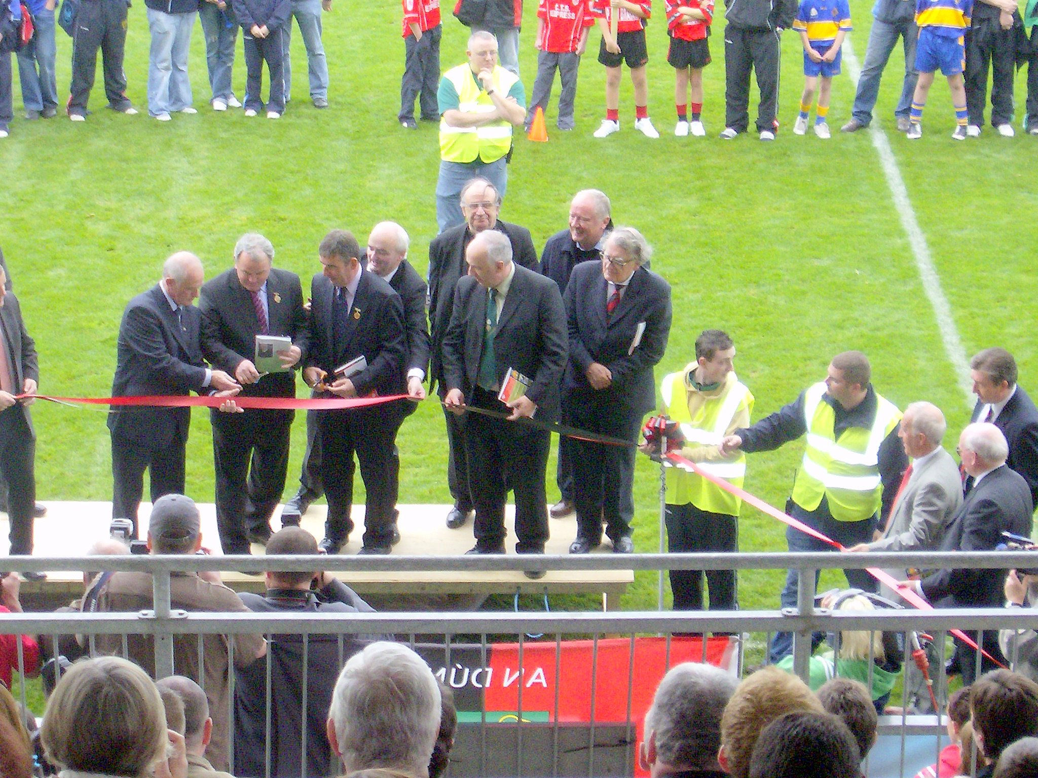 Uachtarán CLG Nickey Brennan cuts the ribbon at the official re-opening of Pairc Esler GAA pitch, Newry, Co Down, Ireland